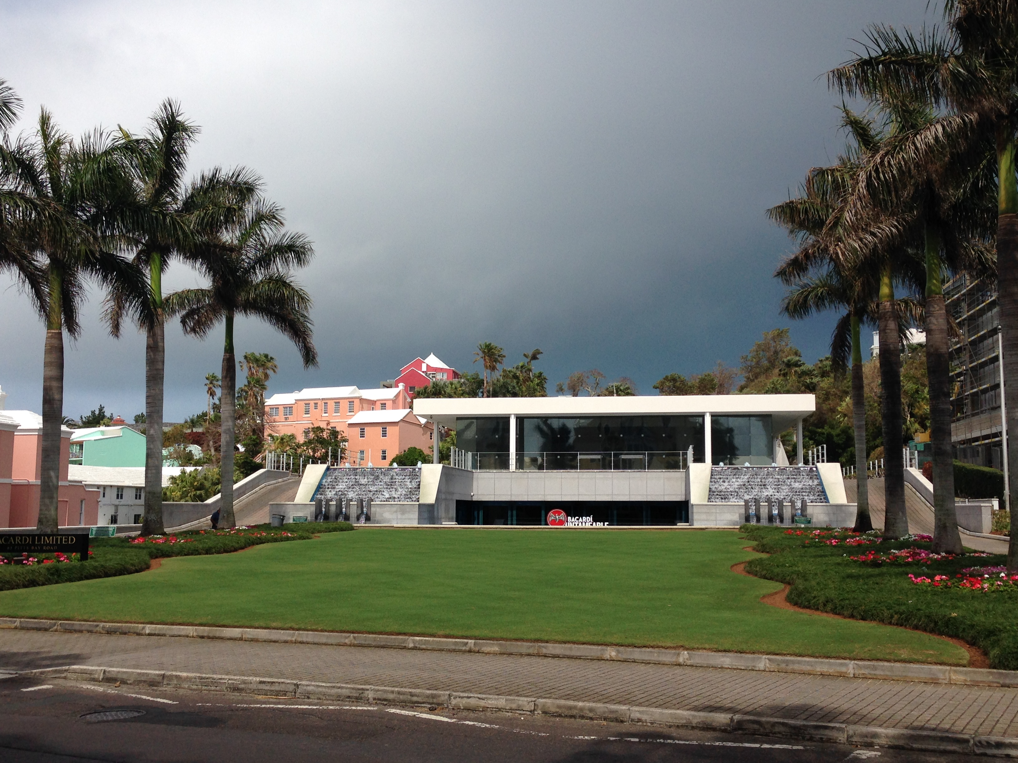 Bacardi World Headquarters, 65 Pitts Bay Road, Hamilton, Bermuda